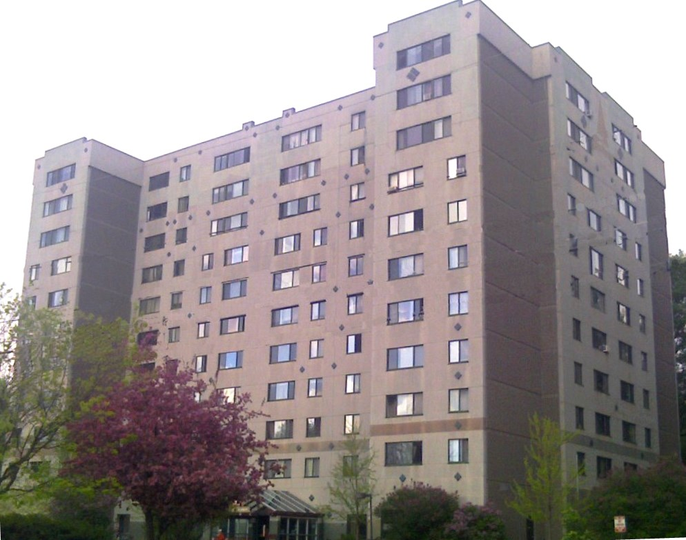 Decker Towers in Burlington, Vermont, public housing, tallest building in Burlington